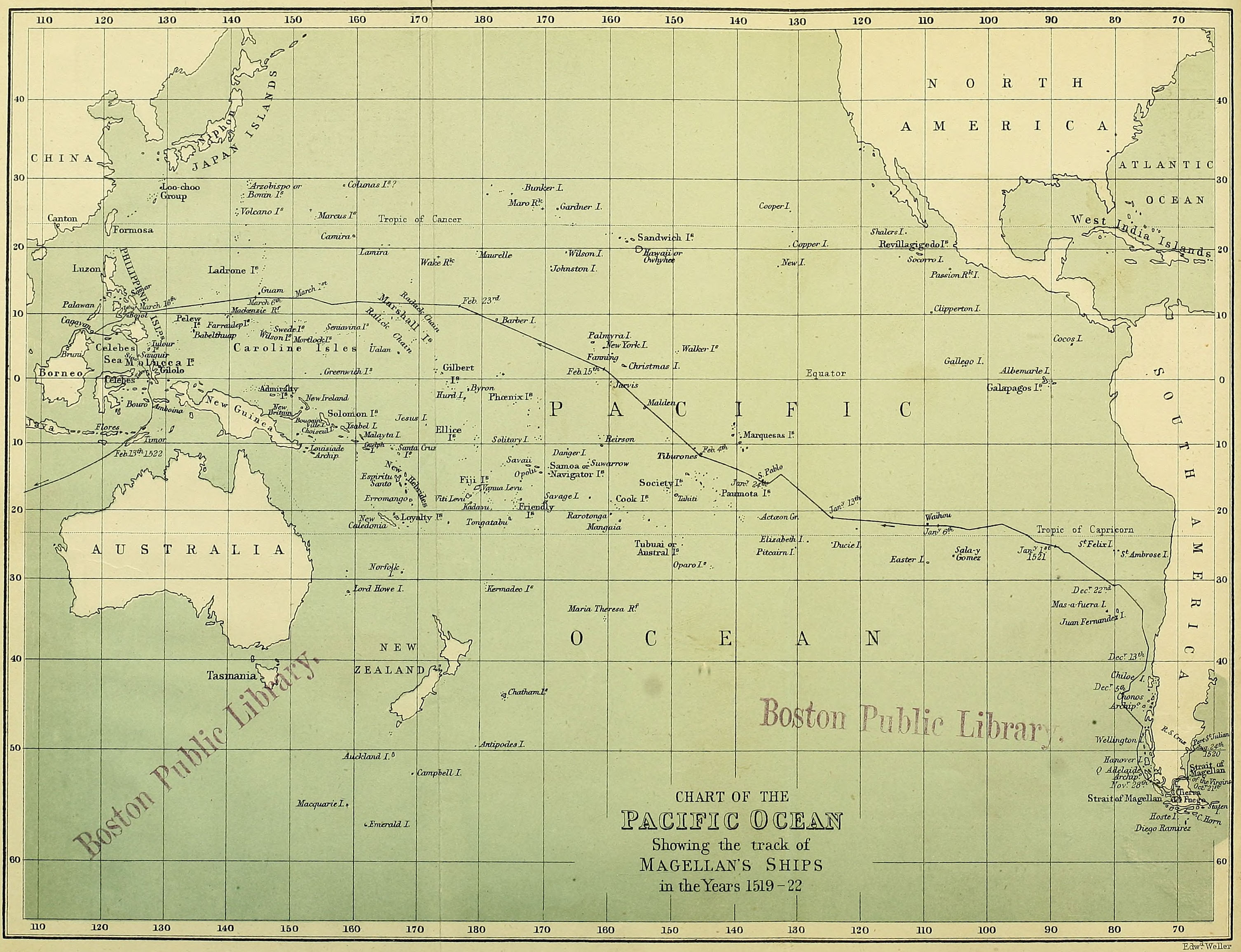 Chart of the Pacific Ocean showing the track of Magellan's ships in the years 1519-22, from The First Voyage round the World, by Magellan.